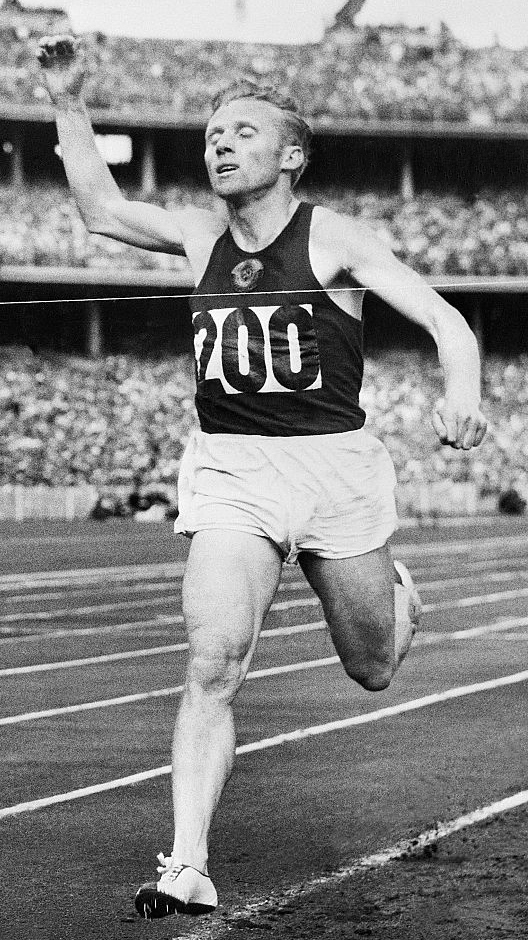 LG290 1956 Wire Photo VLADIMIR KOUTS Russian Olympic Distance Runner Melbourne